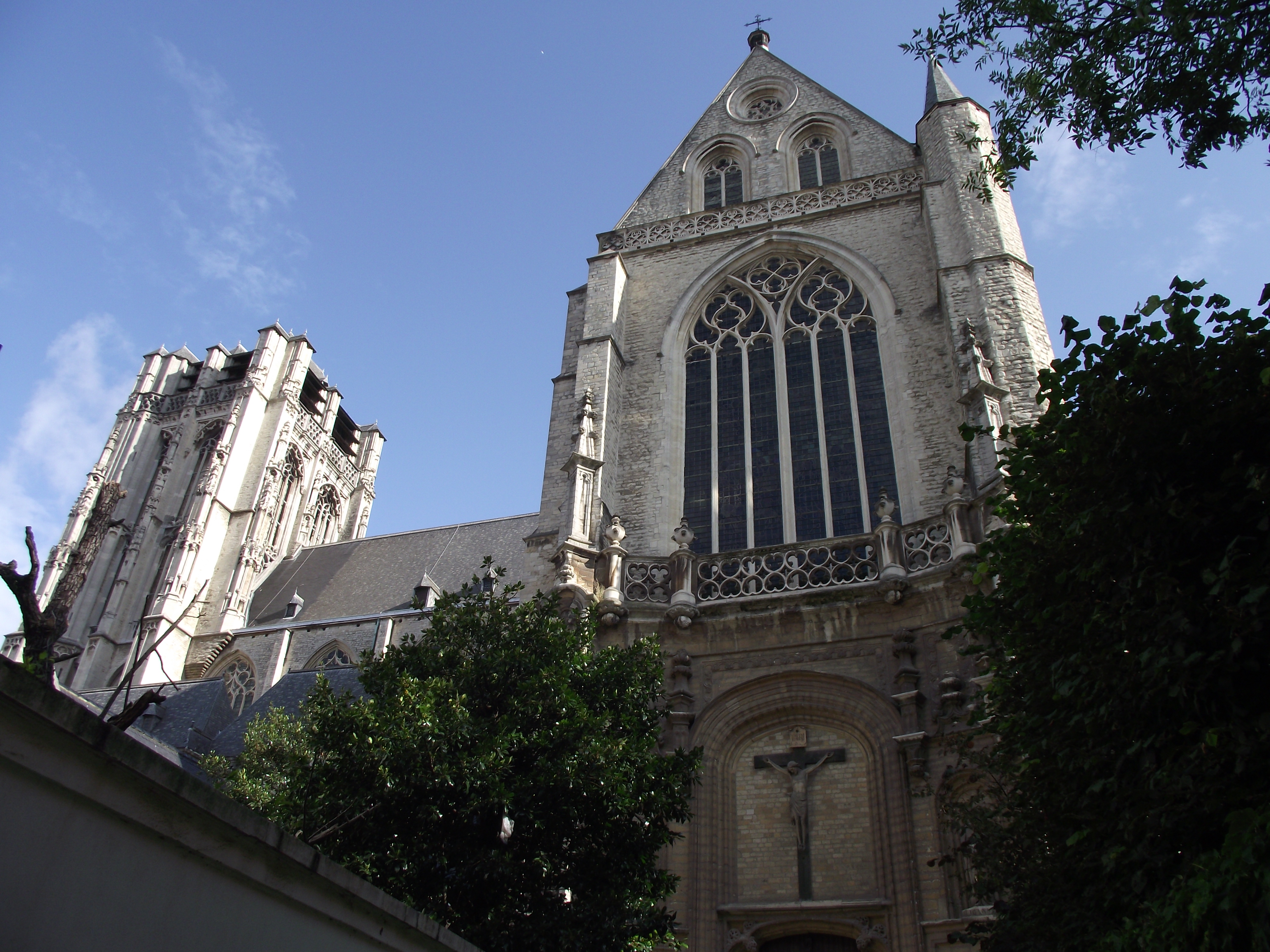 Antwerp, Saint James's Church, XV-XVI Century